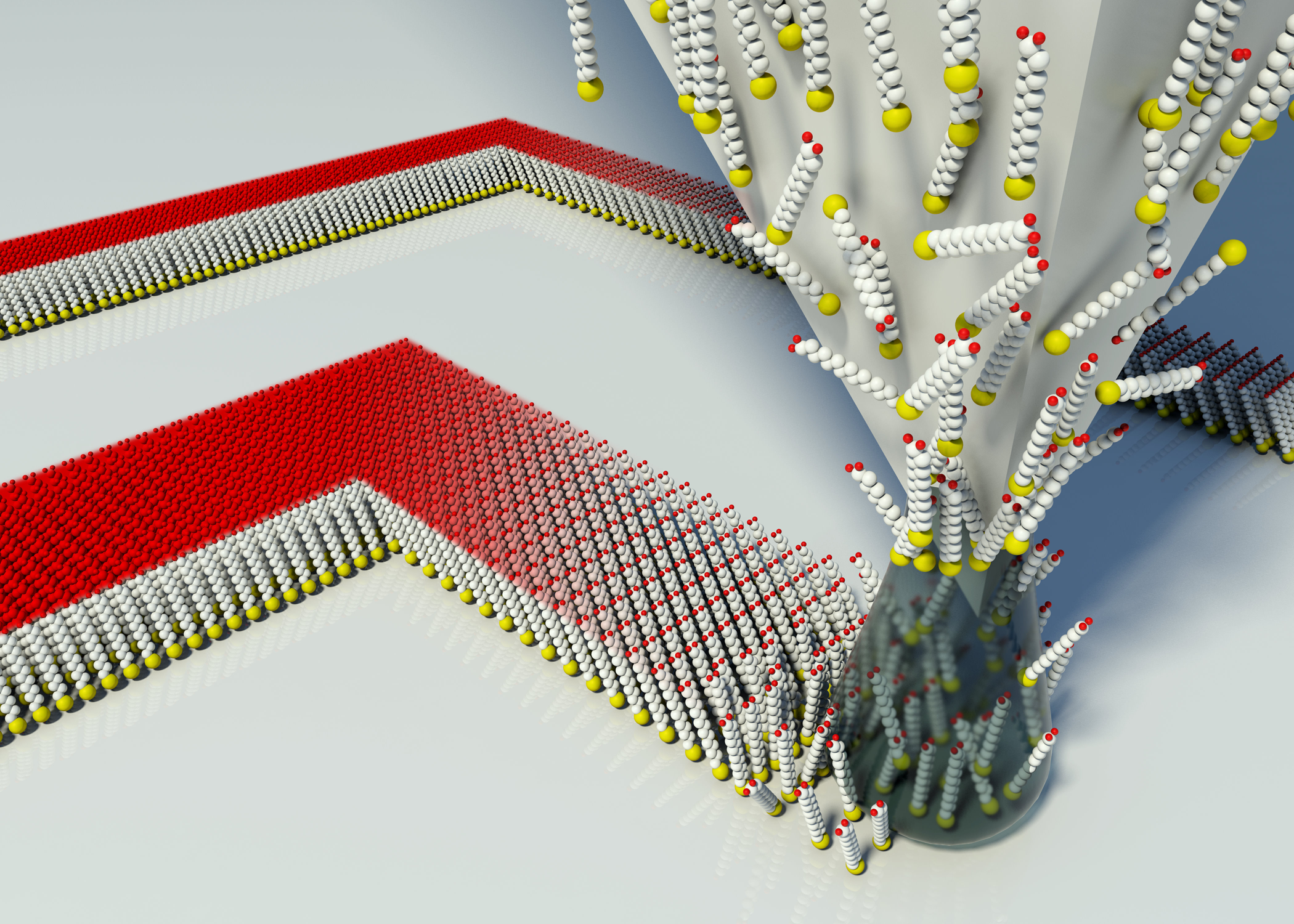 A representation of the classic DPN mechanism where alkane thiols are deposited through a water meniscus.